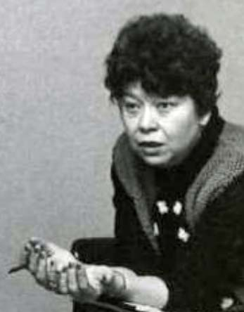 Finnish psychologist Kaija Siirala, often seen on Finnish TV in the 1960s.